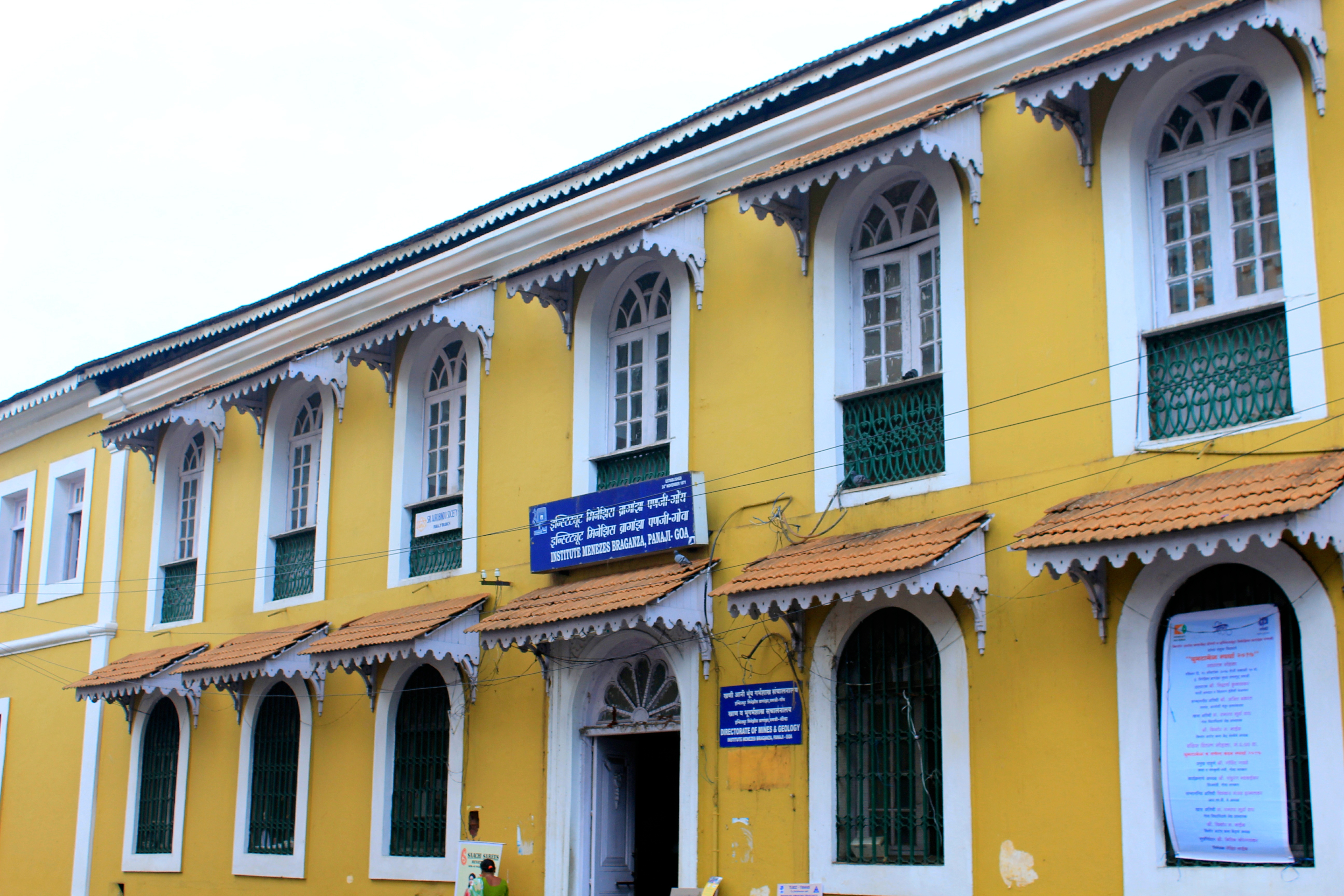 A centre for most of the literary , artistic programs.. Ranging from book release ,workshops on poetry writing to art exhibitions and competitions.. Institute Menezes Braganza Panajim - Goa